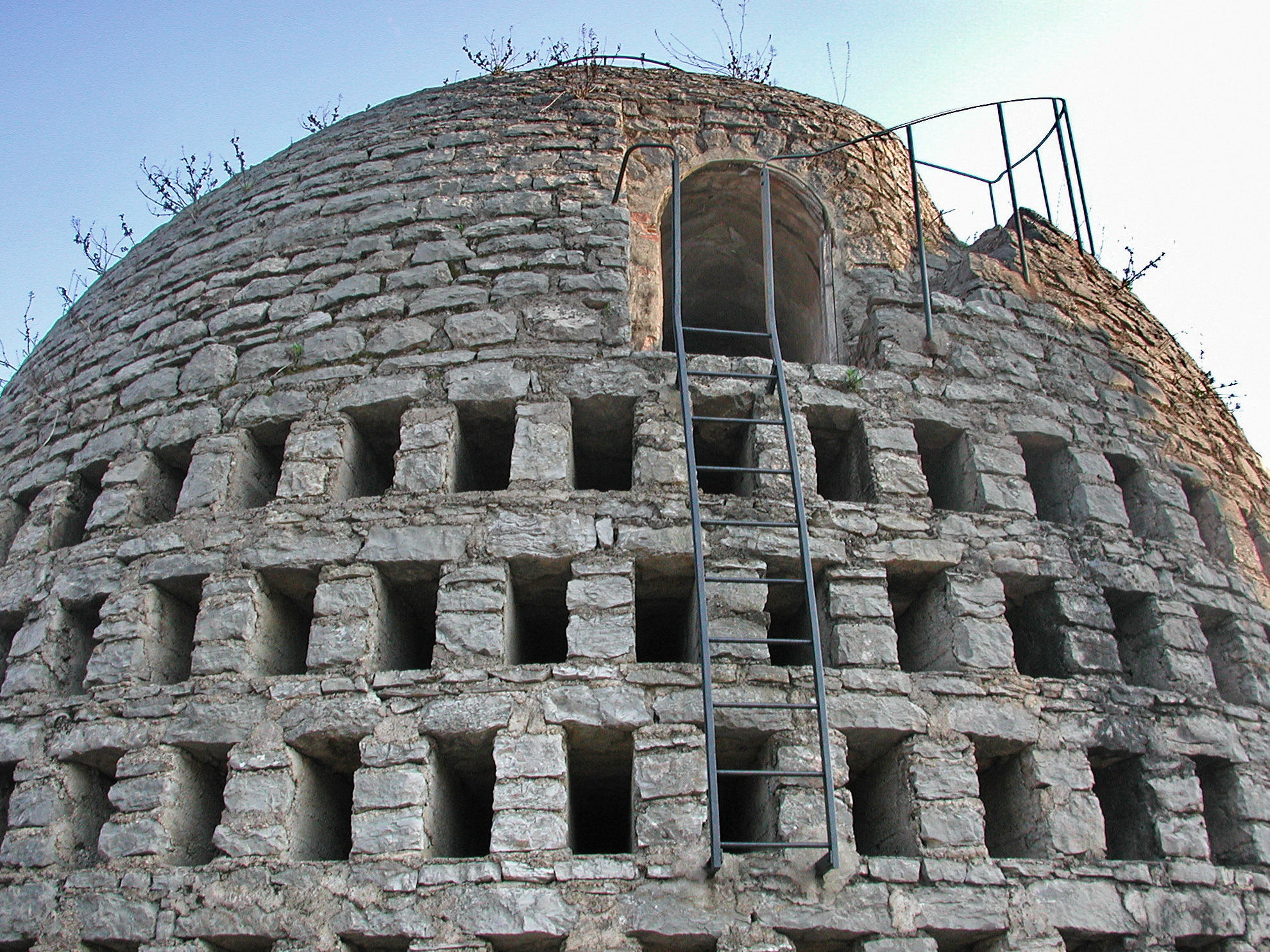 Dew tower of Belgian engineer Achile Knappen in Trans-en-Provence Var